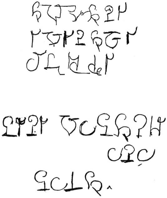 Sample of "Martian" automatic writing by medium Hélène Smith, as found in Théodore Flouroy's From India to the Planet Mars. Cropped from fig. 21 of digital version at . Its caption reads: "Fig. 21. Text No. 16 ; Seance of August 22, 1897. — First Martian text written by Mlle. Smith (according to a visual hallucination). Natural size. [Collection of M. Lemaître] — Herewith its French notation. astaneesenalepouzemene simand ini.mira."